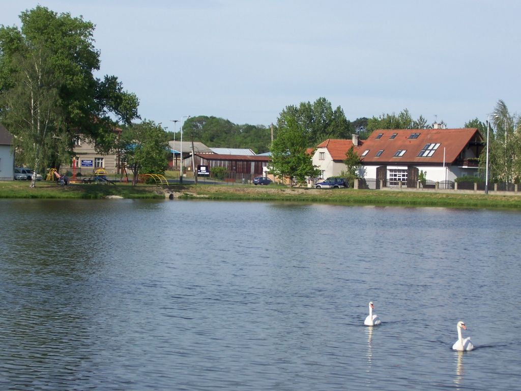 Horoušany